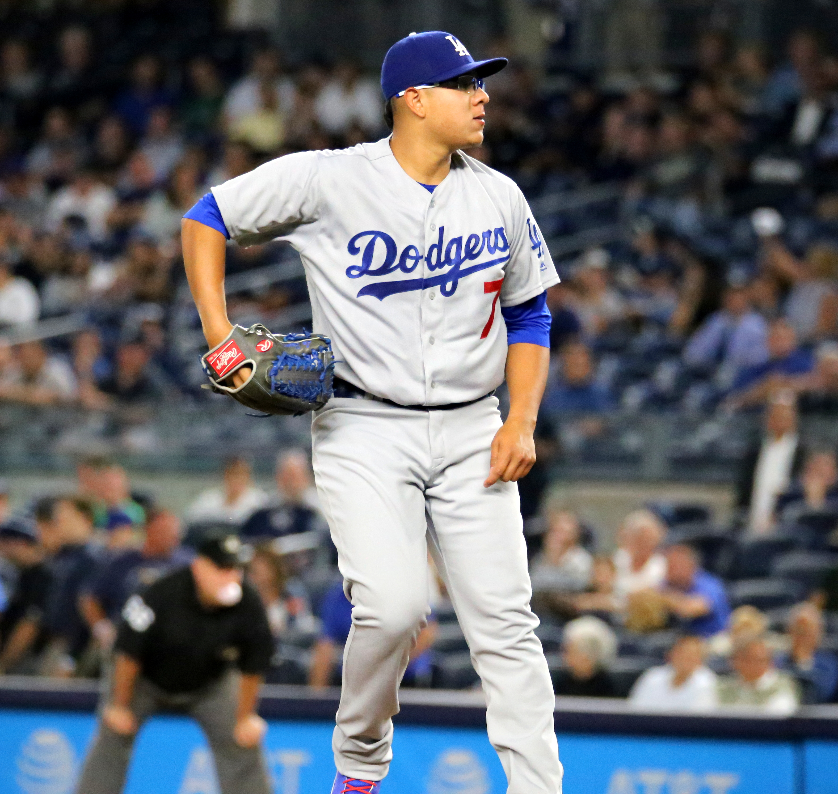 Dodgers starter Julio Urias delivers a pitch in the first inning.